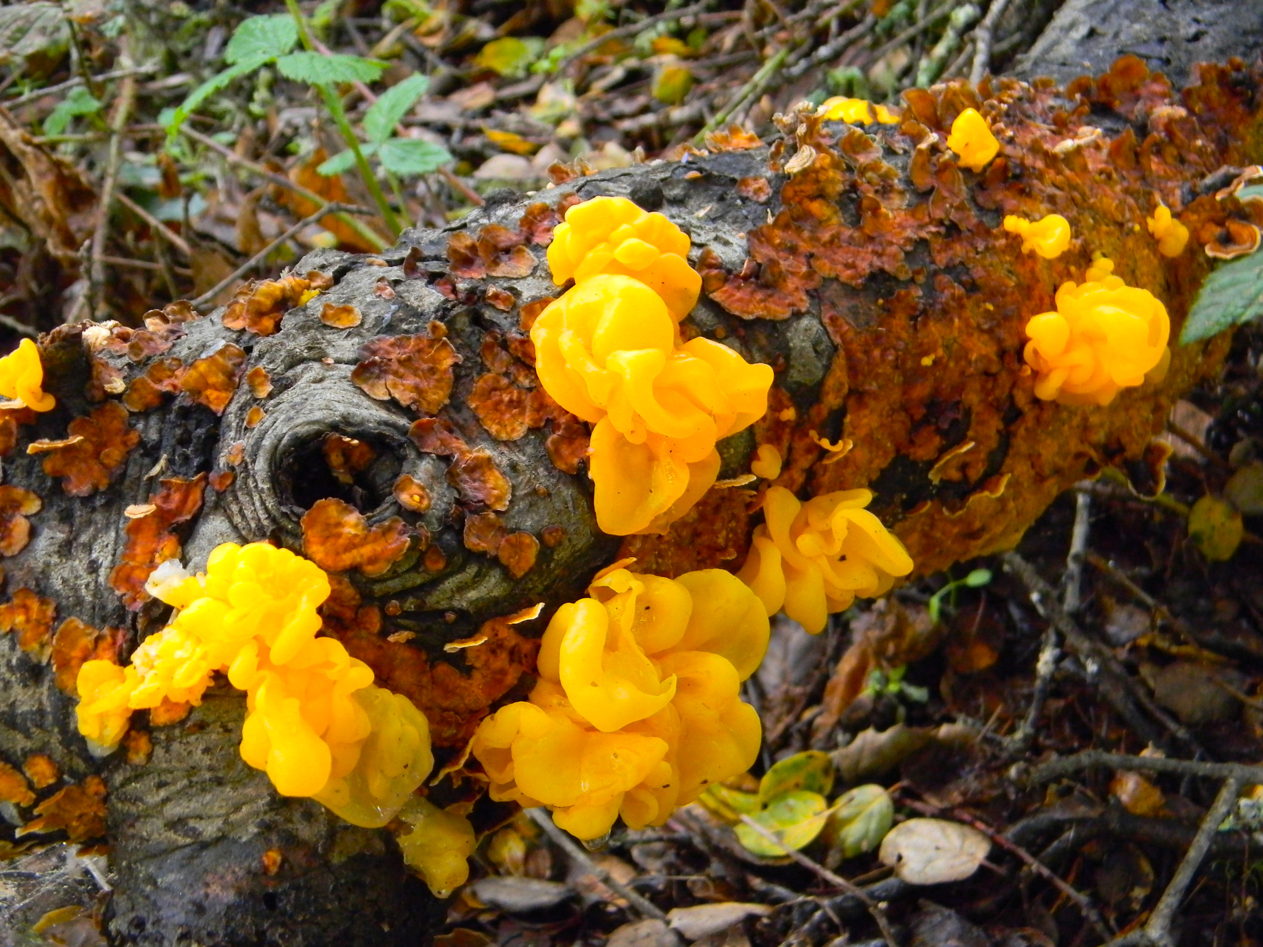 Tremella aurantia Schwein. Image location: Tilden Regional Park, Contra Costa Co., California, USA growing on a log that has Stereum hirsutum. Recognized by sight For more information about this, see the observation page at Mushroom Observer.